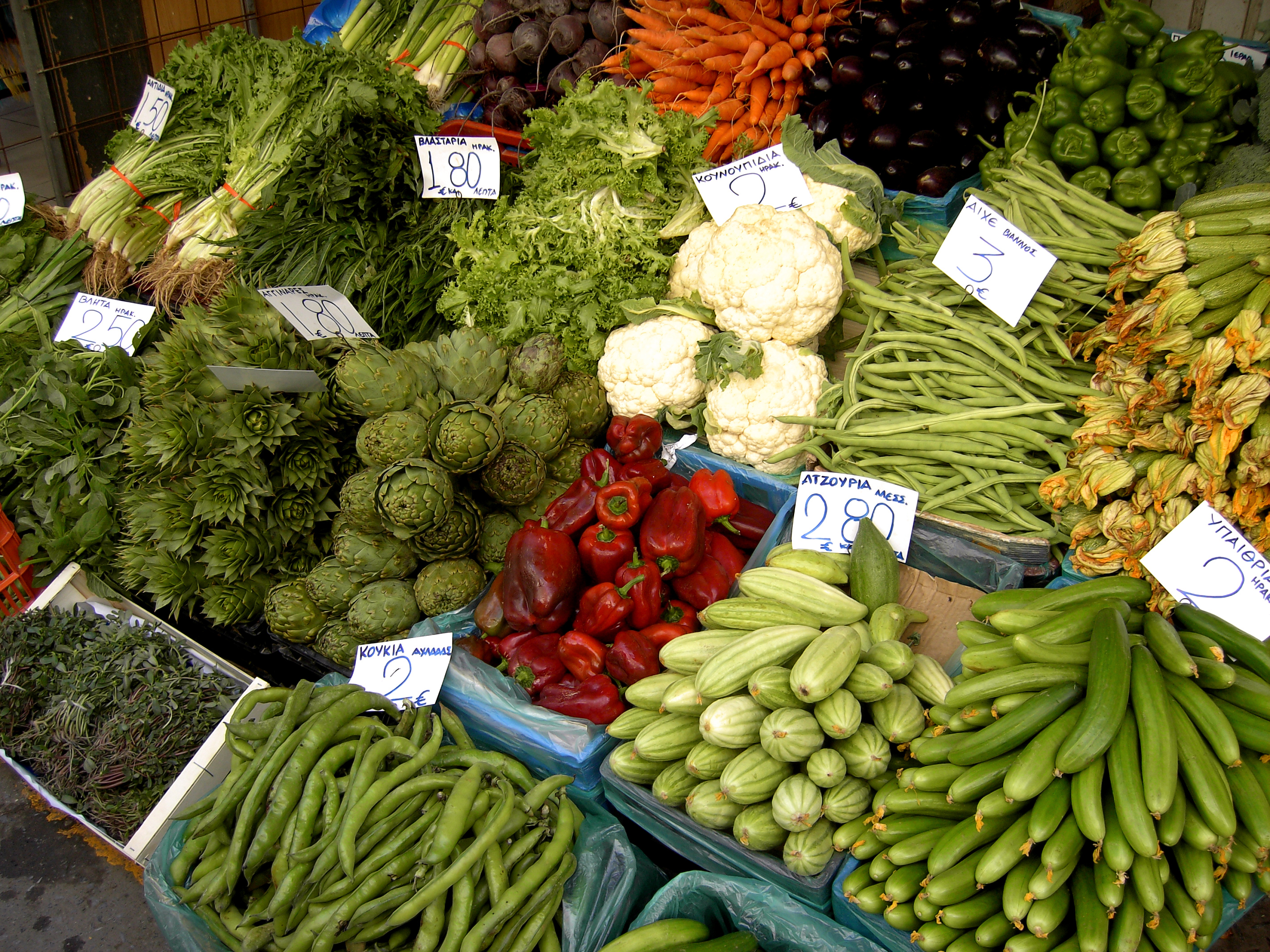 Vegetable market in Heraklion, Crete.